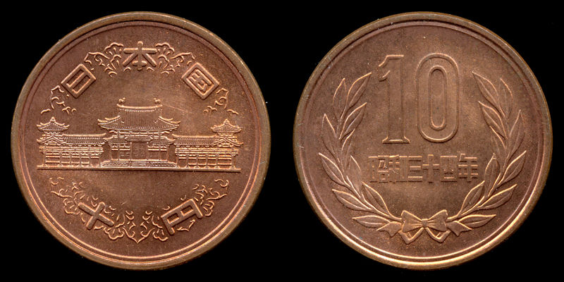 10yen-S34(current coin)